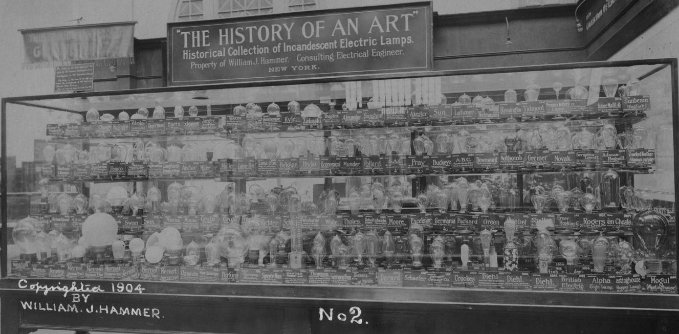 Hammer Historical Collection of Incandescent Lamps titled "The History of an Art", case no. 2